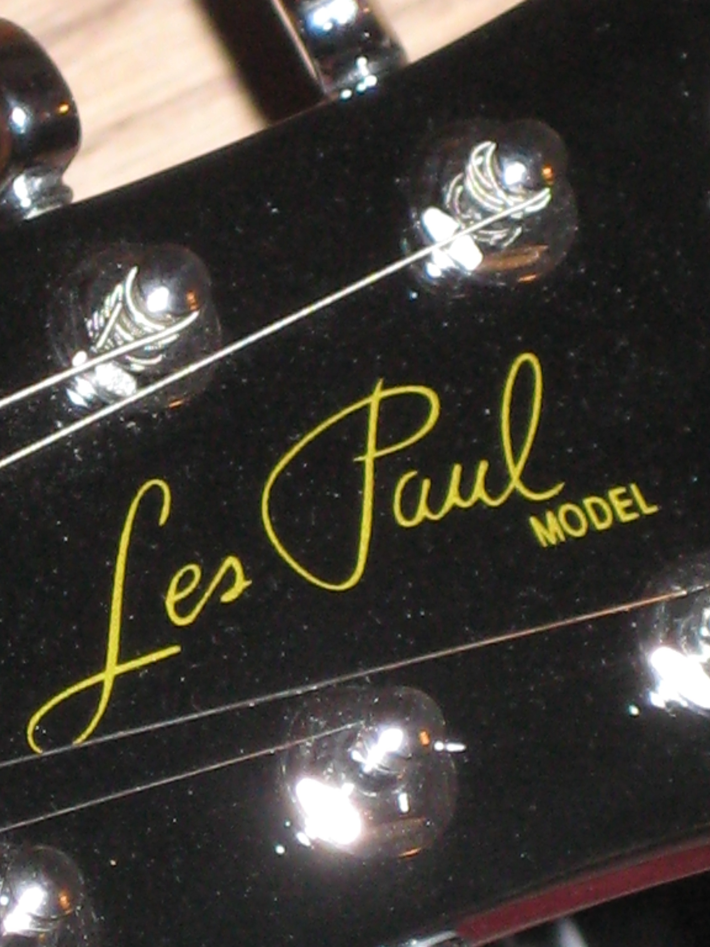 The signature headstock of a Gibson Les Paul.